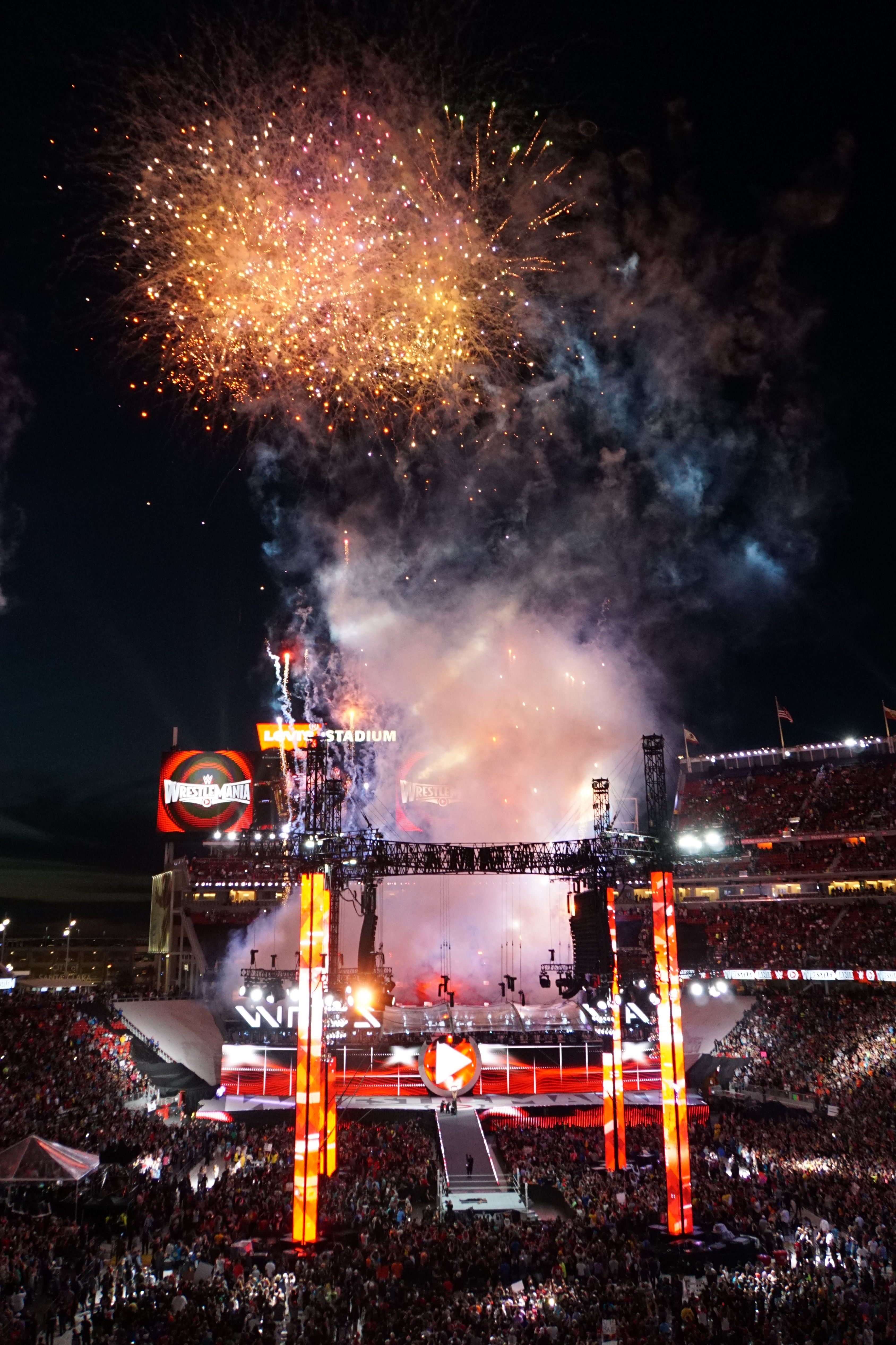 2015-03-29_19-59-01_ILCE-6000_DSC00243